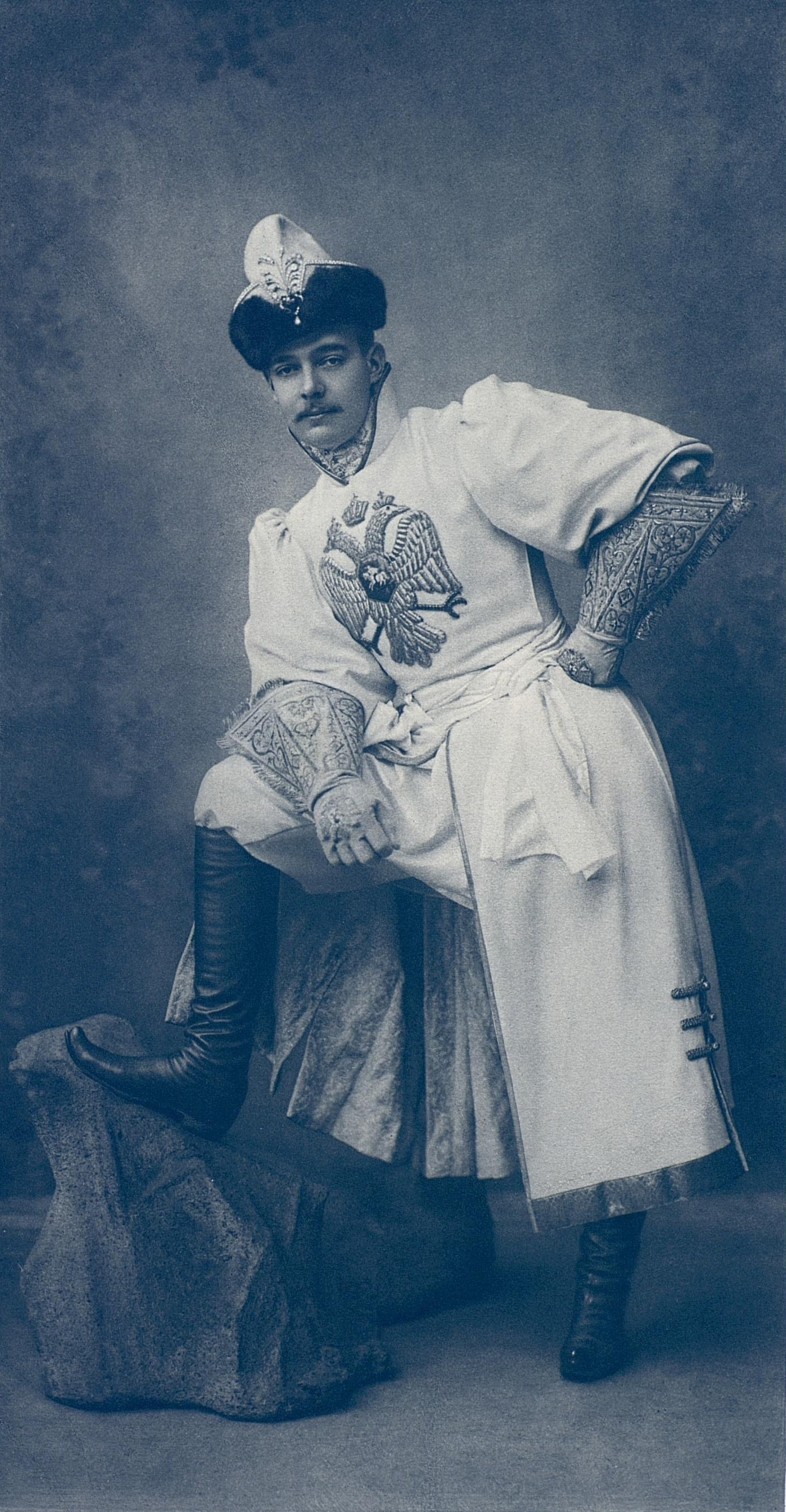 Grand Duke Andrew Vladimirovich